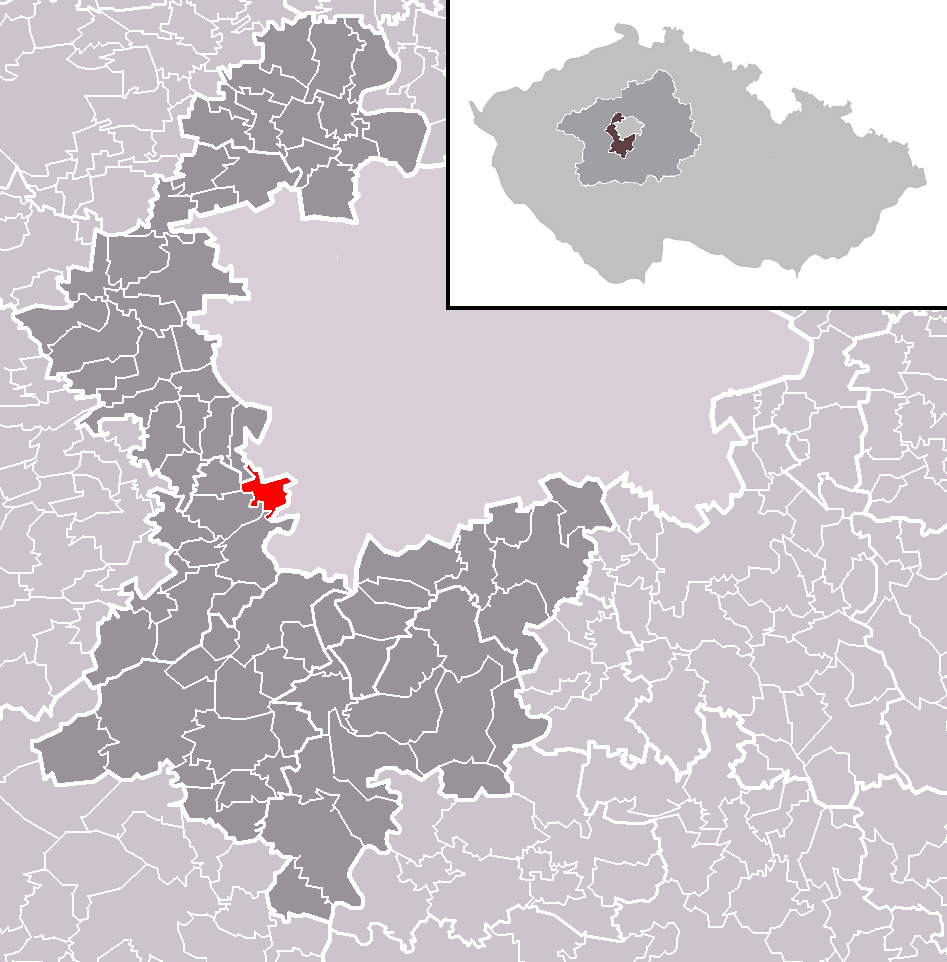 Location of Kosoř municipality within Prague-West District and administrative area of Černošice as a Municipality with Extended Competence.